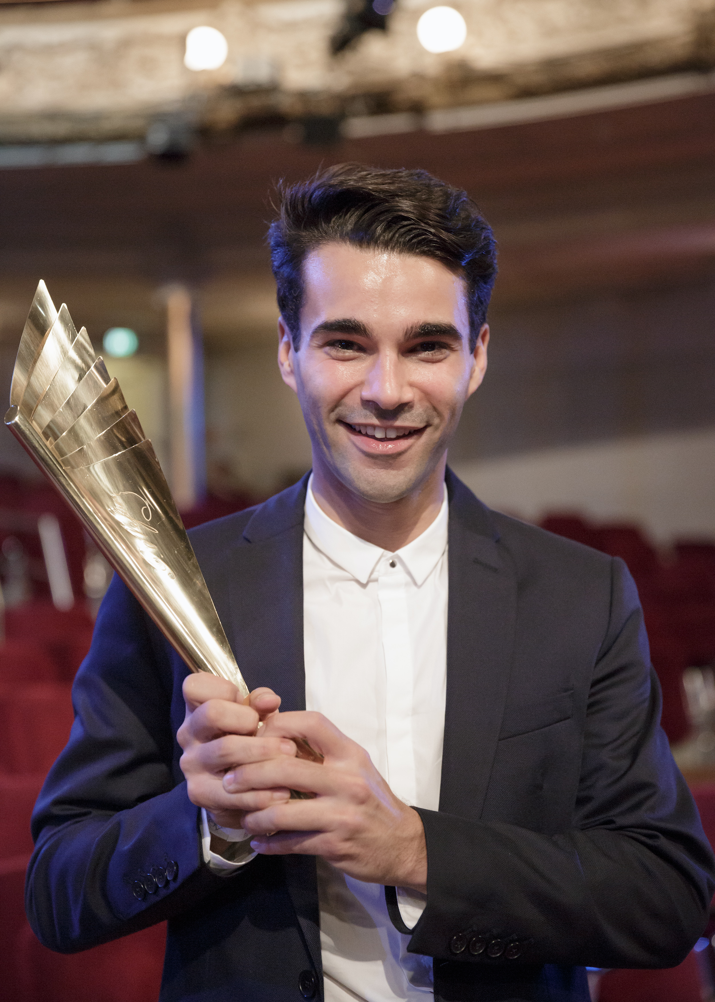 Luka Dimic at the Nestroy Theatre Awards 2016 (Ronacher, Vienna, Austria).